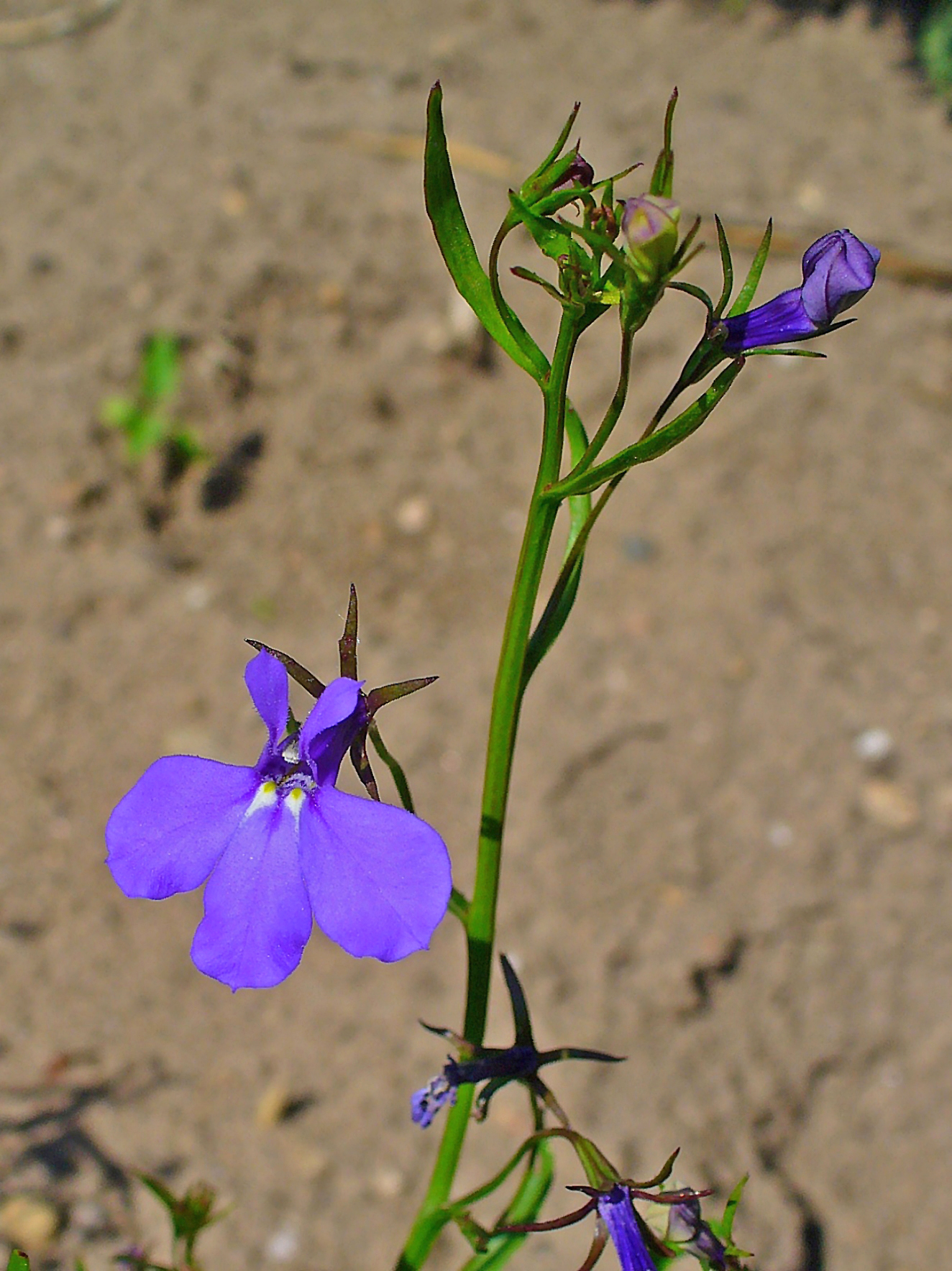 Lobelia erinus, Campanulaceae, Edging Lobelia, Garden Lobelia, Trailing Lobelia, inflorescence. The whole, fresh plant collected at bloom is used in homeopathy as remedy: Lobelia erinus (Lob-e.)